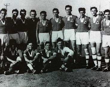 Mandatory Palestine national football team before the friendly match against Lebanon.